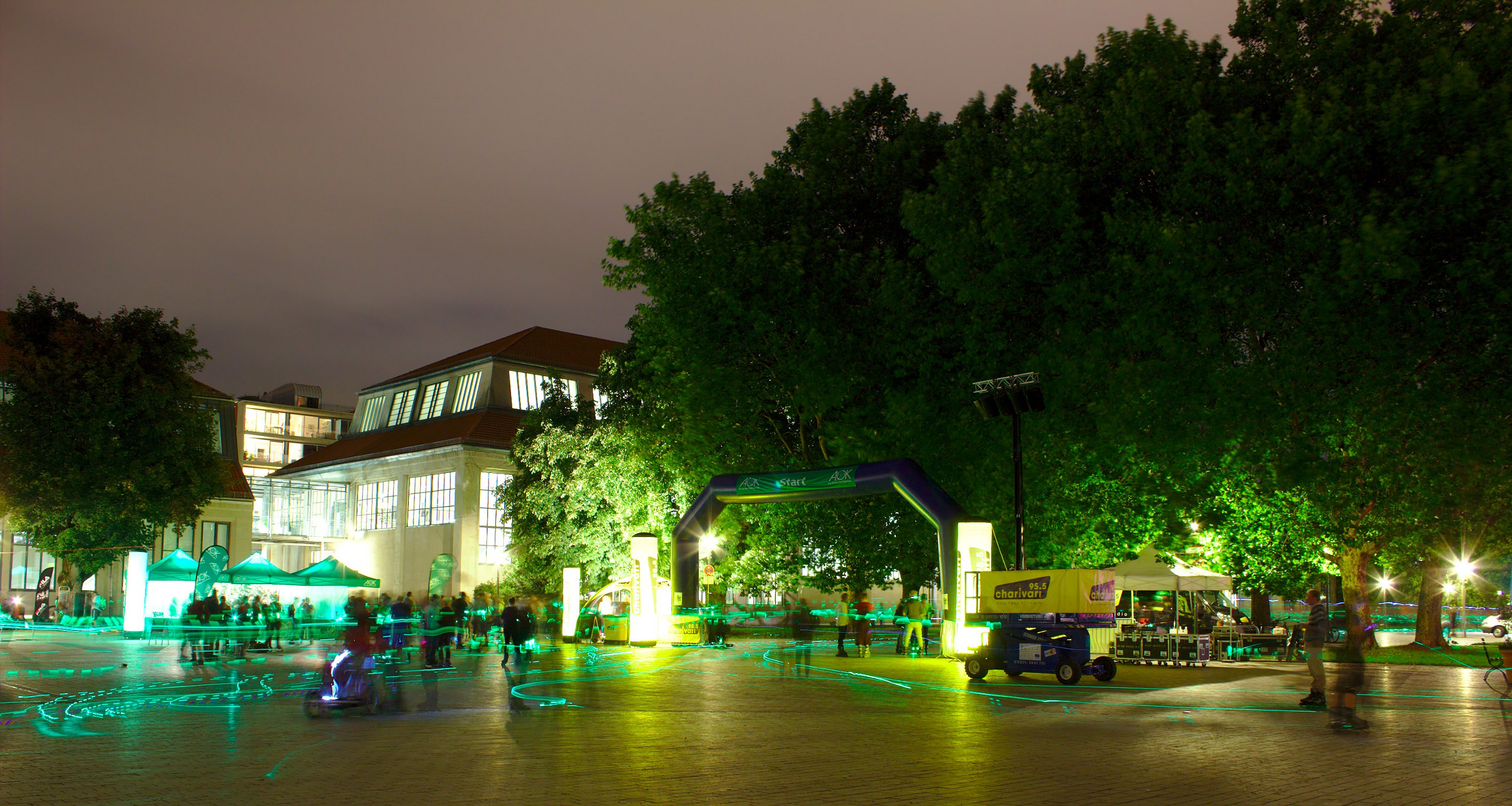 Munich Bladenight finish line, long exposure.